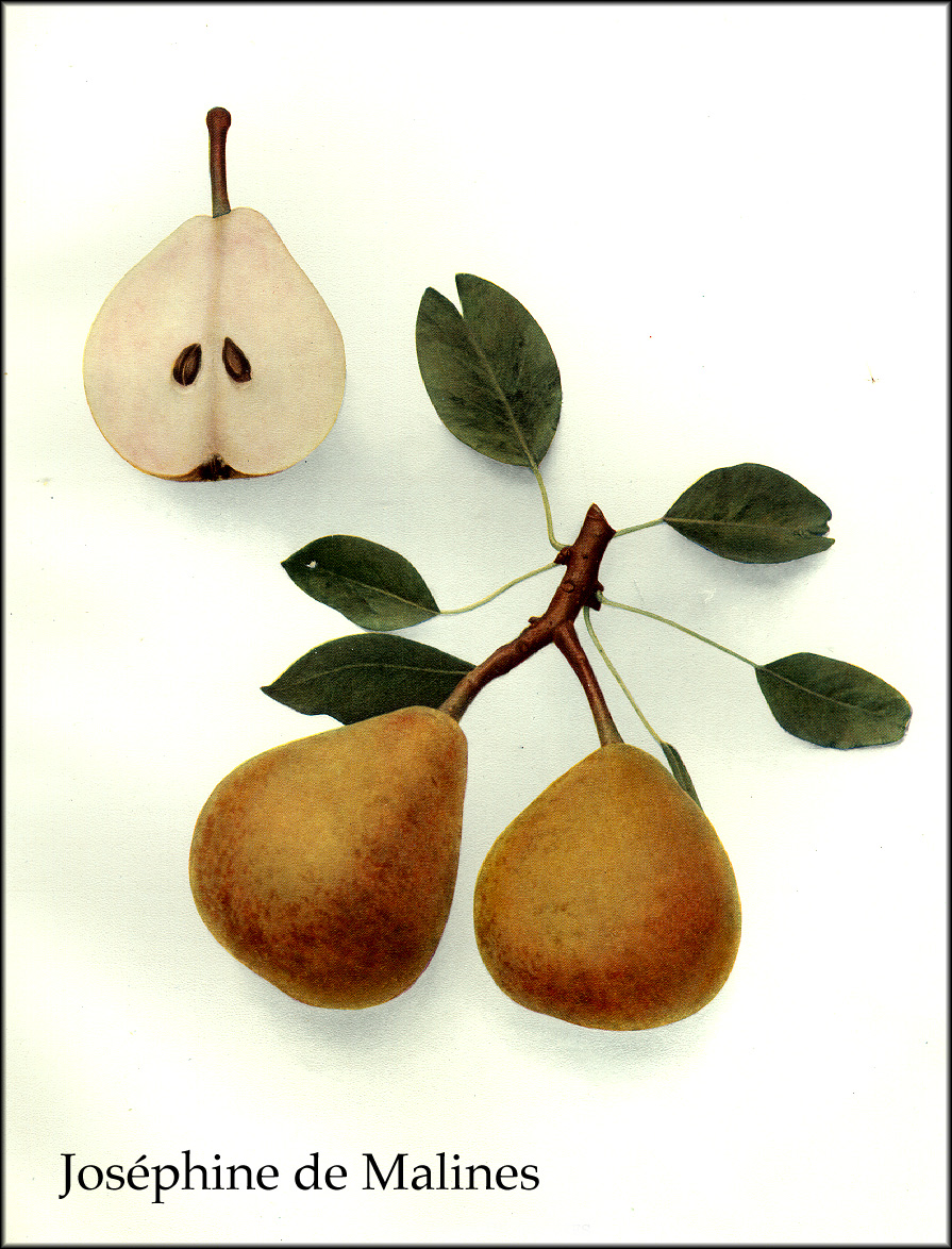 A colour plate from The Pears of New York (1921) depicting the Joséphine de Malines pear cultivar.